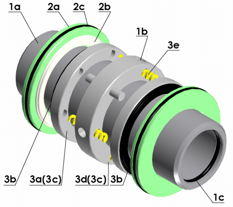 3D schematic of double mechanical seal